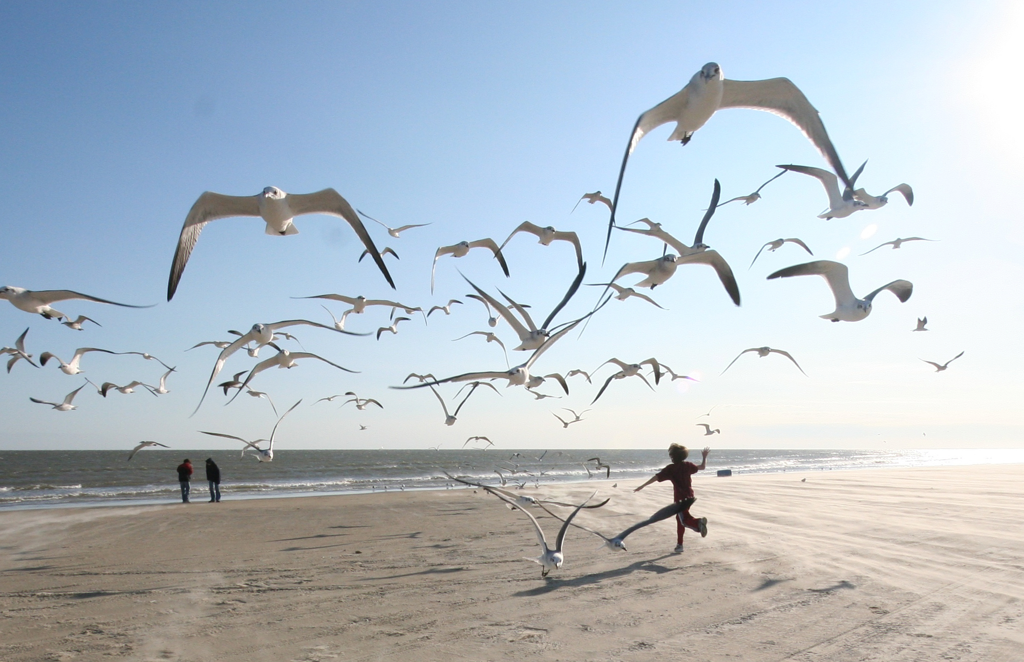 "Running with the seagulls", Galveston, Texas